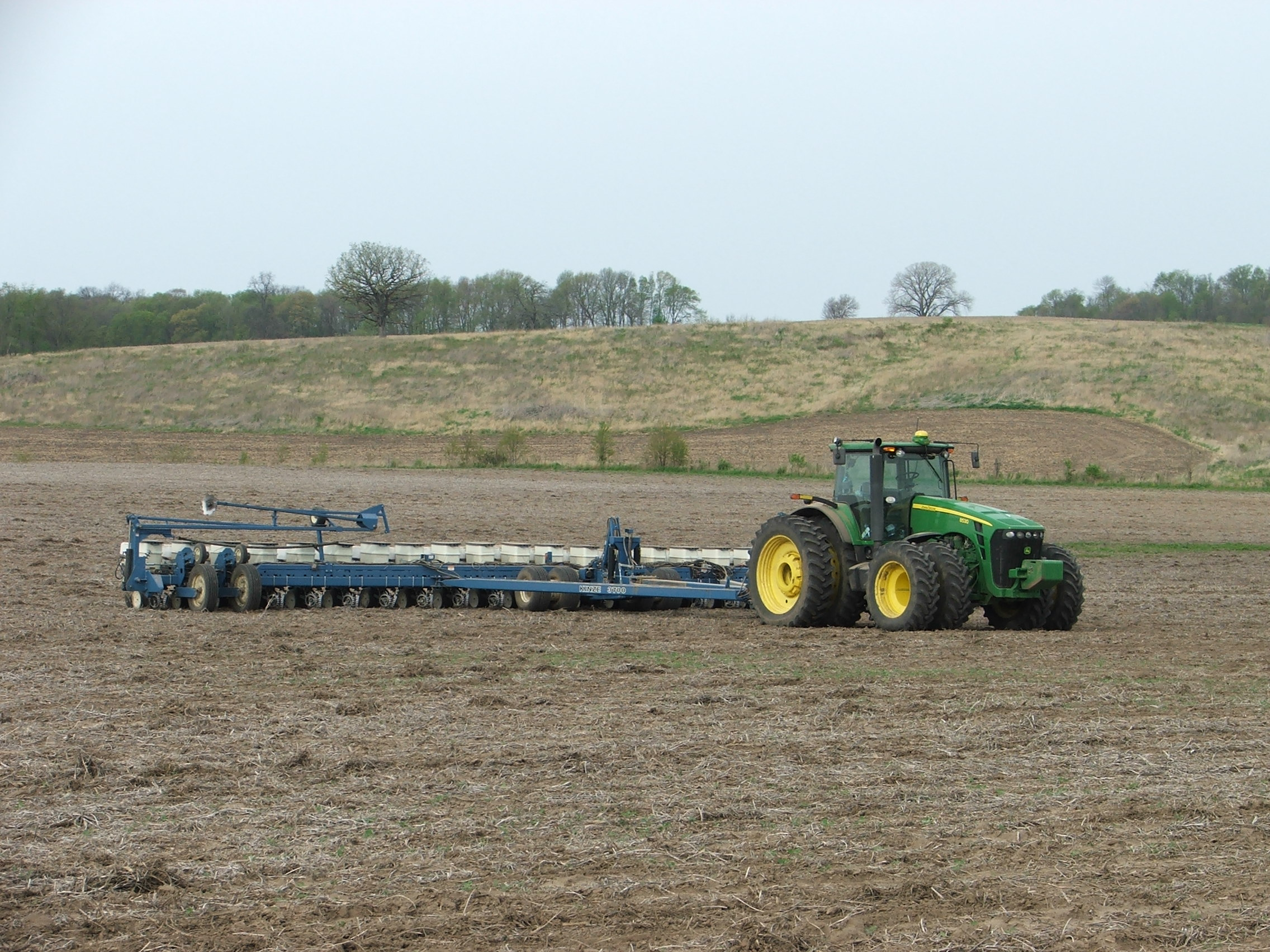 John Deere 8530 tractor with Kinze 3700 planter